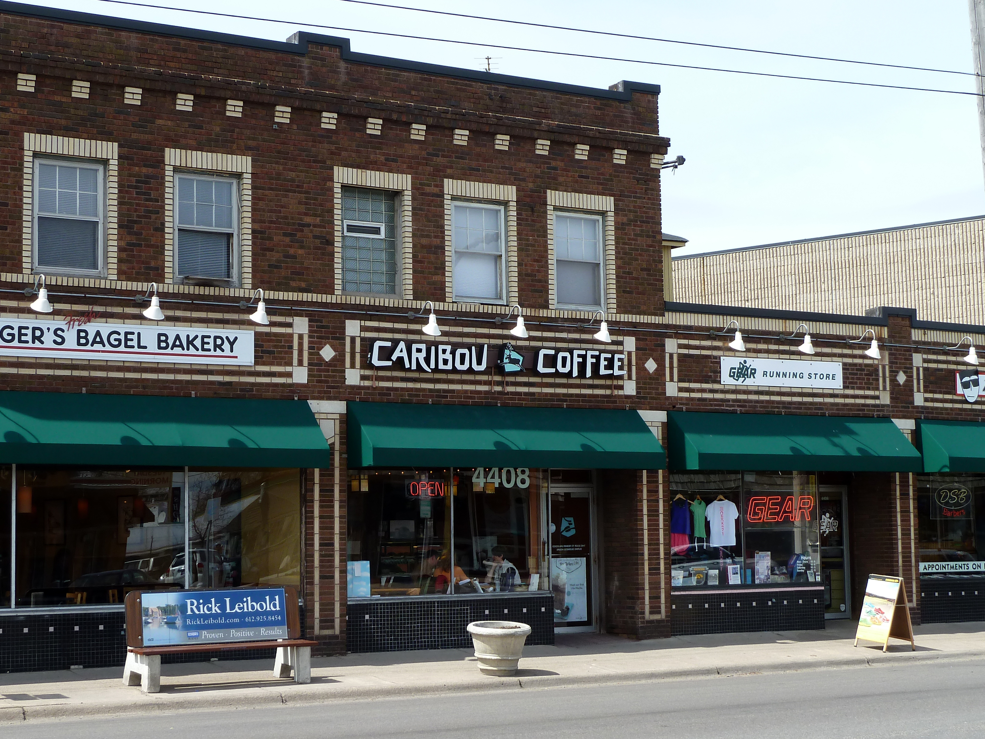 The first Caribou Coffee location, officially store 101 or the "44th and France" store, it is located on the west side of France Avenue, just south of 44th in Edina, Minnesota, USA, and opened in 1992. This coffee shop was the start of the second largest coffee house chain in the USA with locations worldwide.